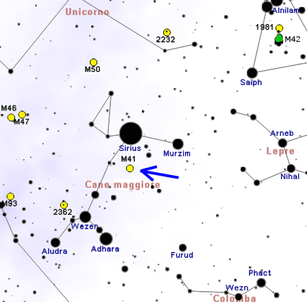 M 41 map